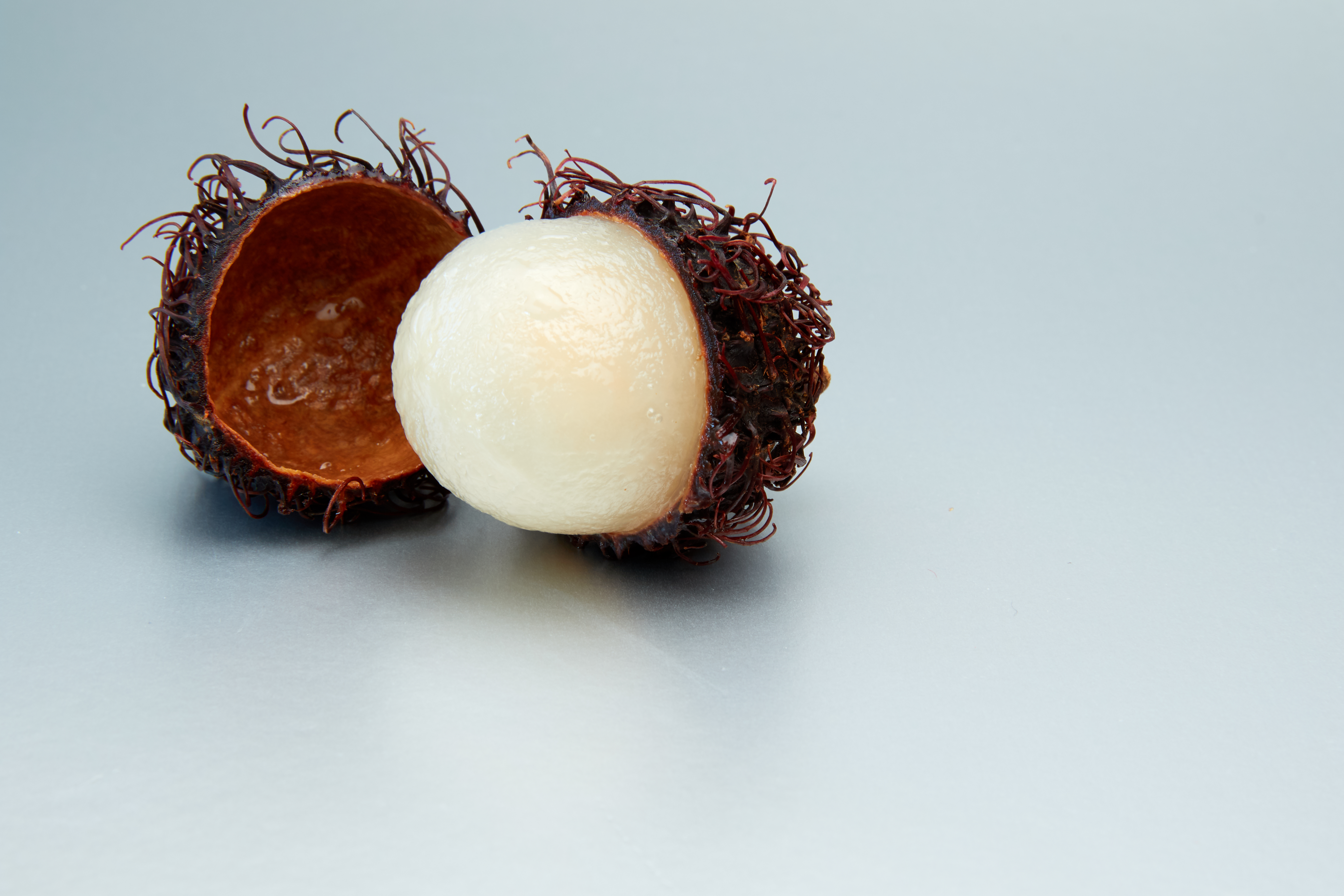 A tropical rambutan fruit (Nephelium lappaceum), half peeled